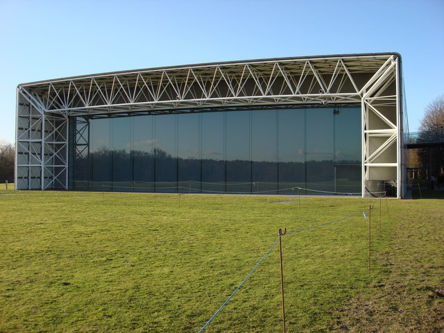 Sainsbury Centre for Visual Arts, University of East Anglia